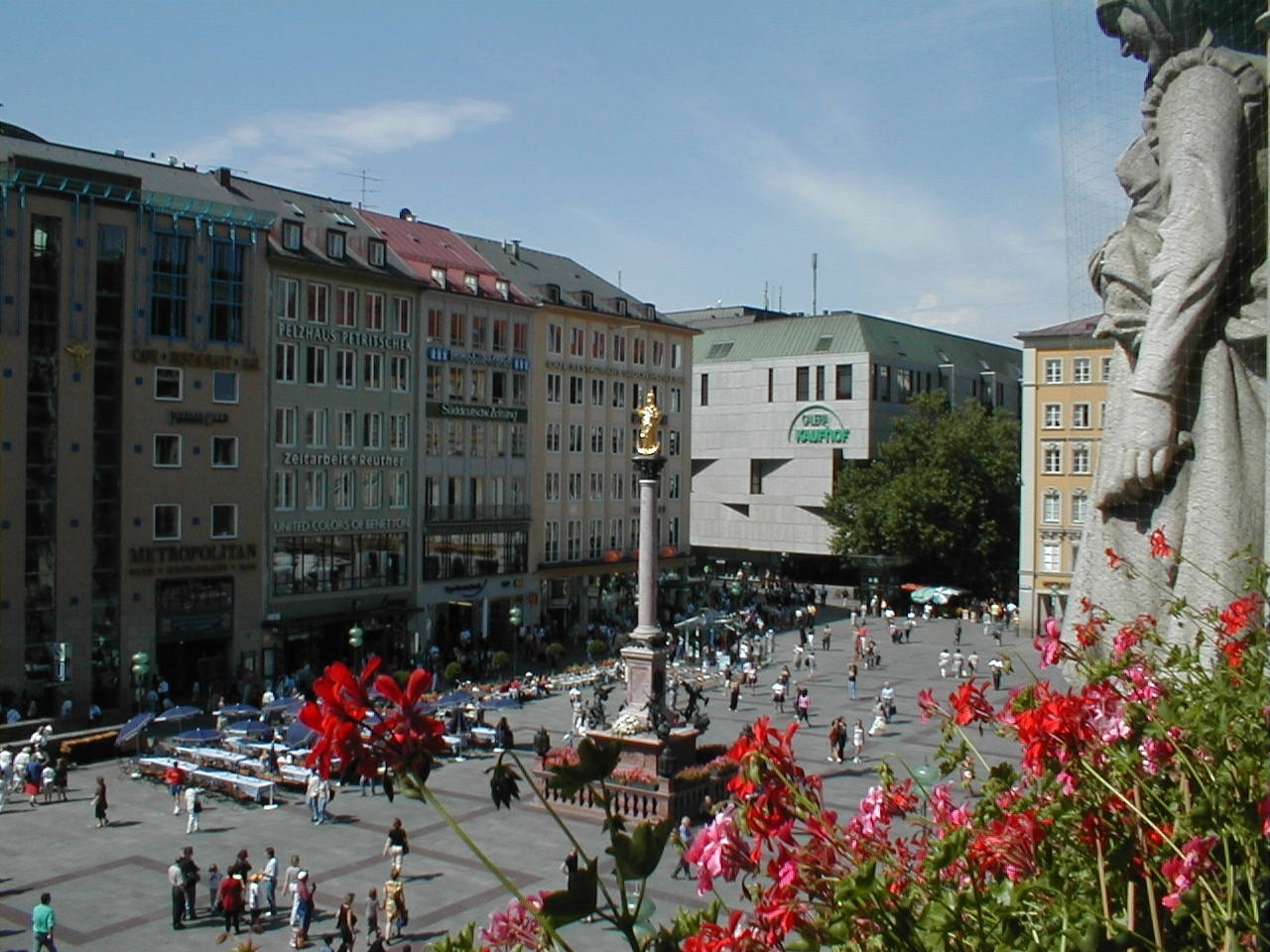 Marienplatz in Munich (Bavaria), Germany - taken from a balcony of the New Town Hall